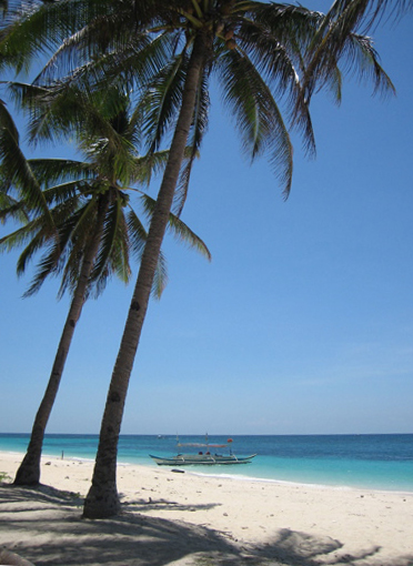 Phuka Beach on the northern shore of Boracay, Philippines